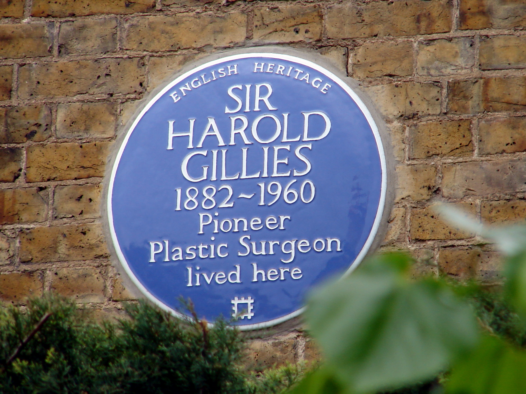 Sir Harold Gillies